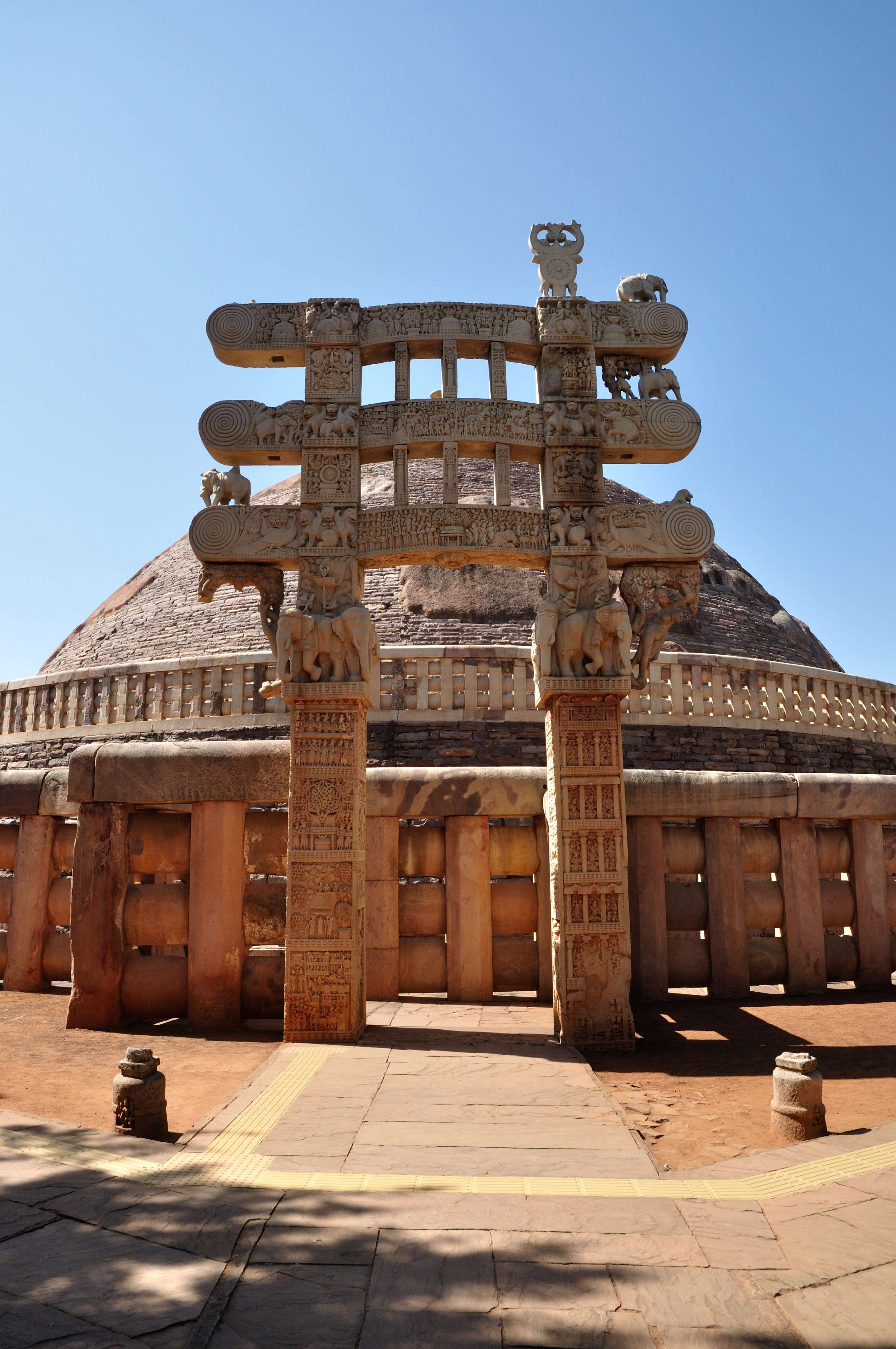 Photographed at the Sanchi Hill, Raisen district of the state of Madhya Pradesh, India.